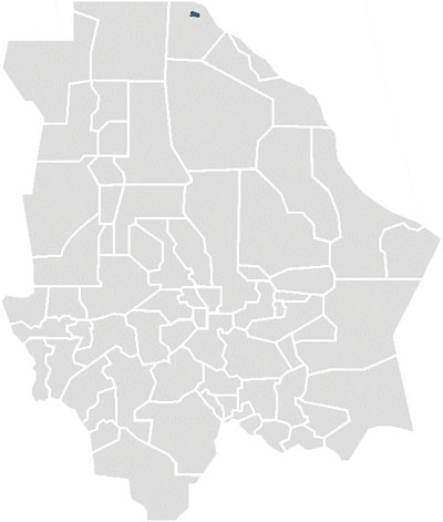 Map of the Fourth Federal Electoral District of the State of Chihuahua, México.